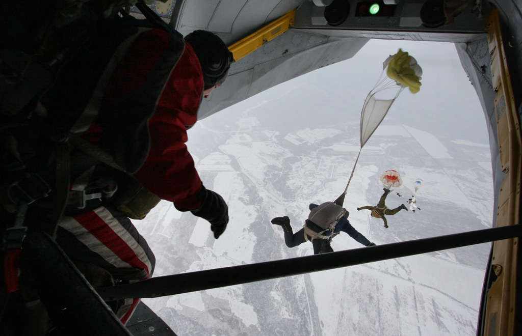 “Russia's Pacific Fleet marine paratroopers in training”. Russia's Pacific Fleet marine paratroopers in training aboard an An-26 plane.